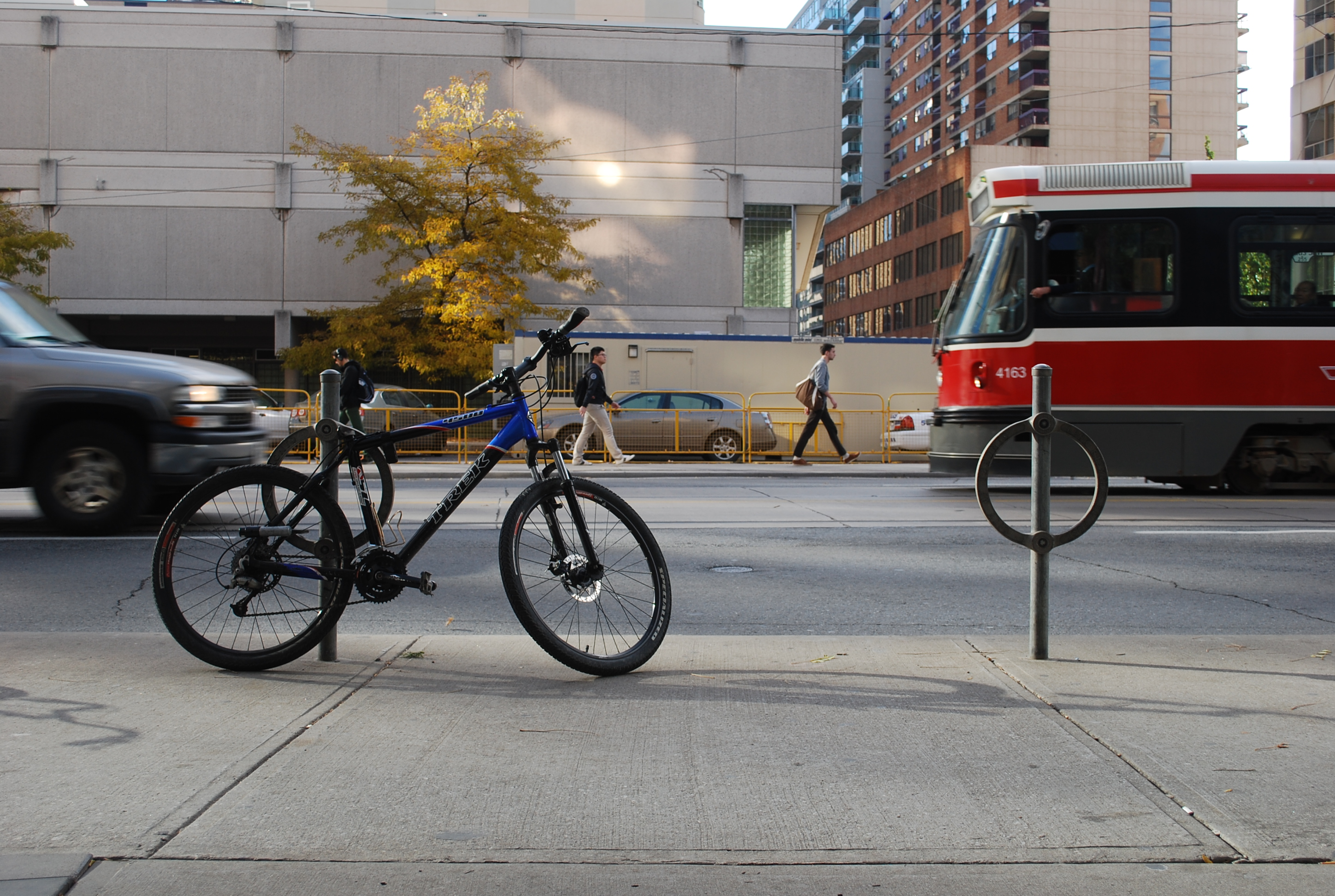 A bicycle post and ring downtown Toronto